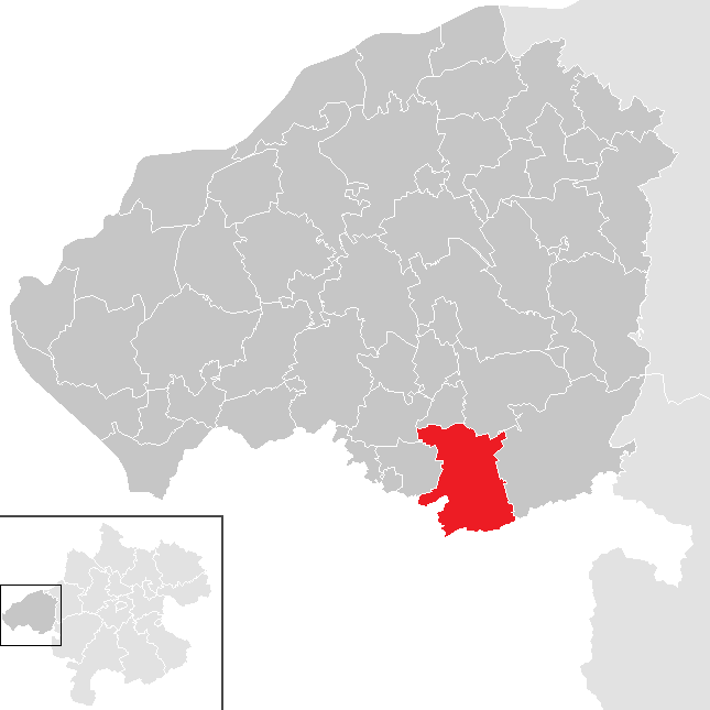 district Braunau am Inn